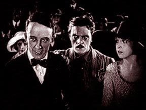 A scene from the 1921 silent movie Seven Years Bad Luck, depicting (featuring left to right) the actors F.B. Crayne, Max Linder and Alta Allen. Copied from the film's entry at Silents Are Golden.